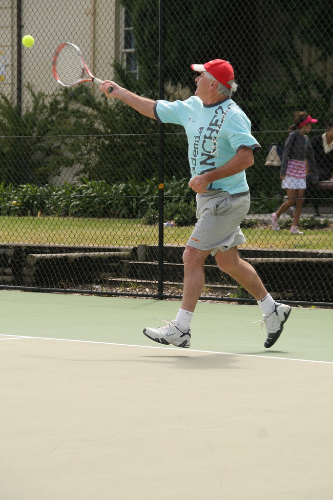 Paul McNamee playing tennis